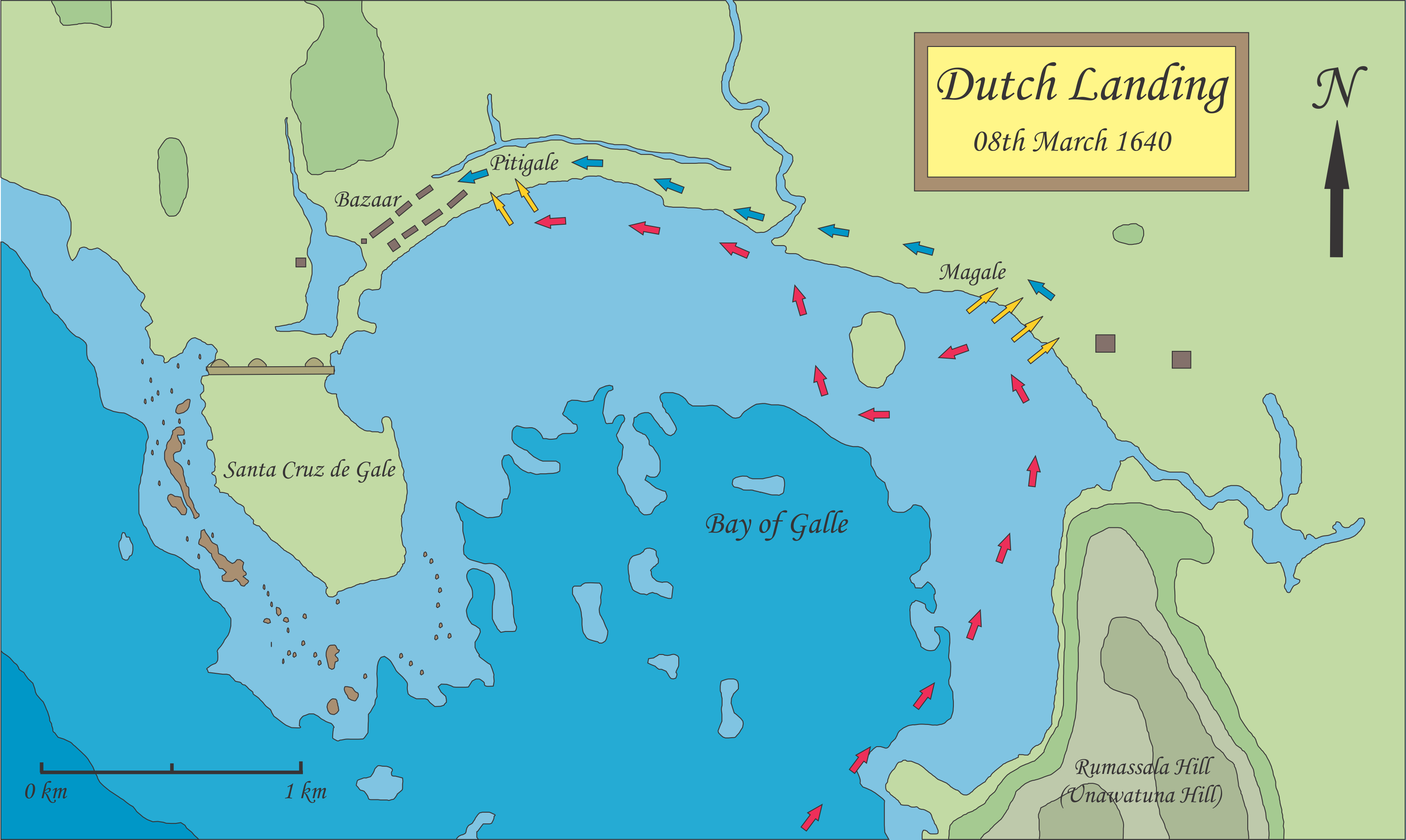 Map showing the landing sites of Dutch troops on 08th March 1640, during the Siege of Portuguese fort Santa Cruz de Gale at Galle. Red arrows show the route taken by the launches while the blue arrows show the advance of Dutch infantry. Launches landed the troops at Magale and unloaded the siege artillery at Pitigale. Map based on details in, Fernao de Queyroz. The temporal and spiritual conquest of Ceylon [SG Perera, Trans]. AES reprint. New Delhi: Asian Educational Services; 1995. p830-831 ISBN 81-206-0767-8 Paul E.Peiris. Ceylon the Portuguese Era: being a history of the island for the period, 1505-1658 - Volume 2. Tisara Publishers Ltd:Sri Lanka; 1992. p271 OCLC: 12552979.